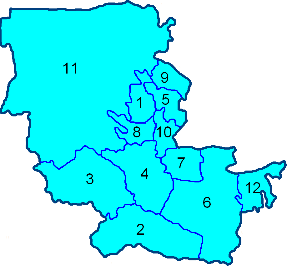 Division of Jizzax Province into tumans